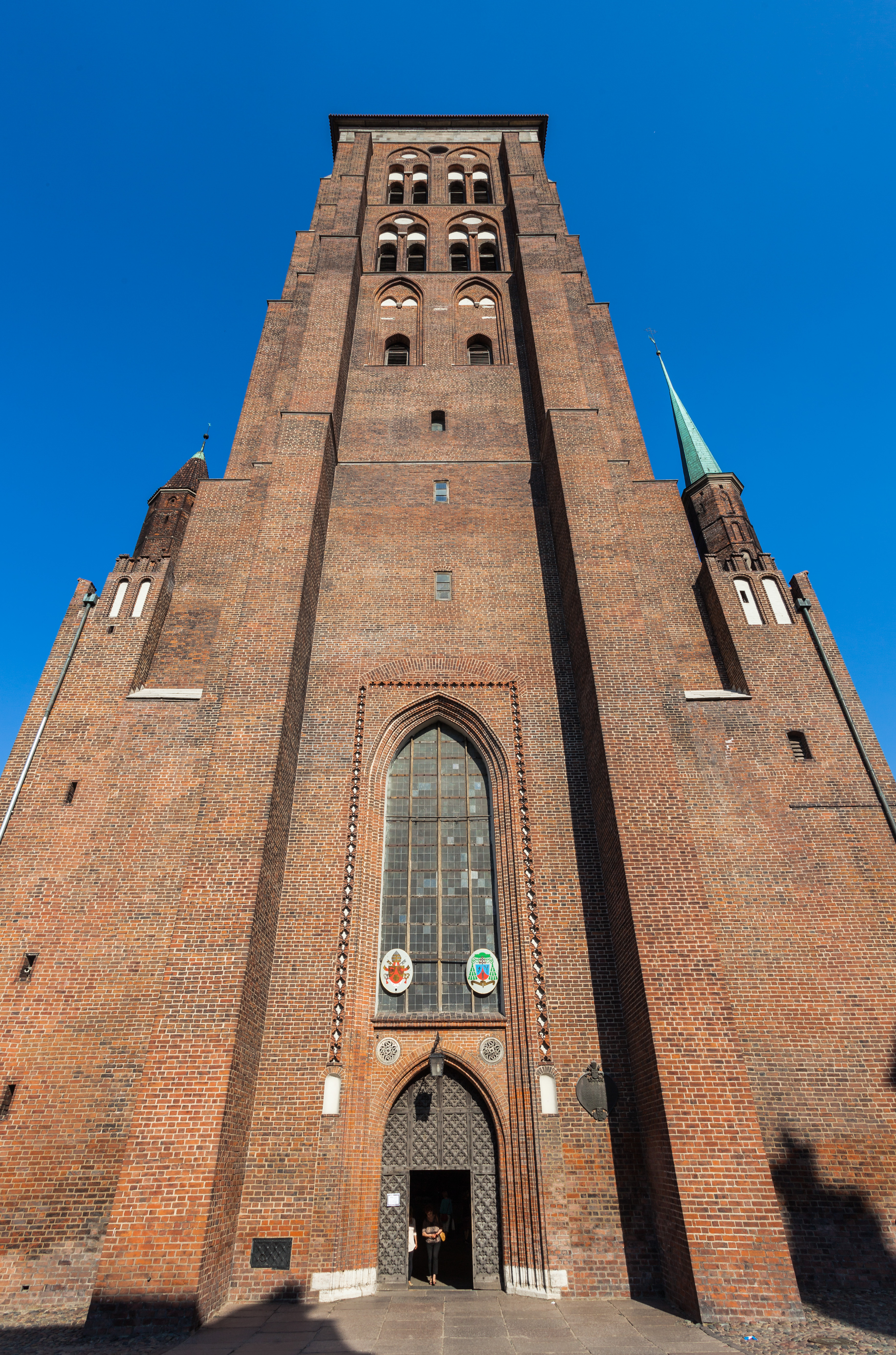 Church of St Mary, Gdansk, Poland